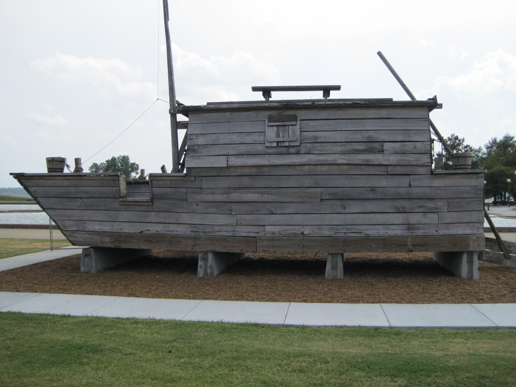 25 foot long replica of a flatboat in which Abraham Lincoln floated down the river as a young man. Replica was built 2004 and was acquired by the Mississippi Riverpark and Museum, Memphis, Tennessee in 2010. Commercial Appeal, Memphis, TN